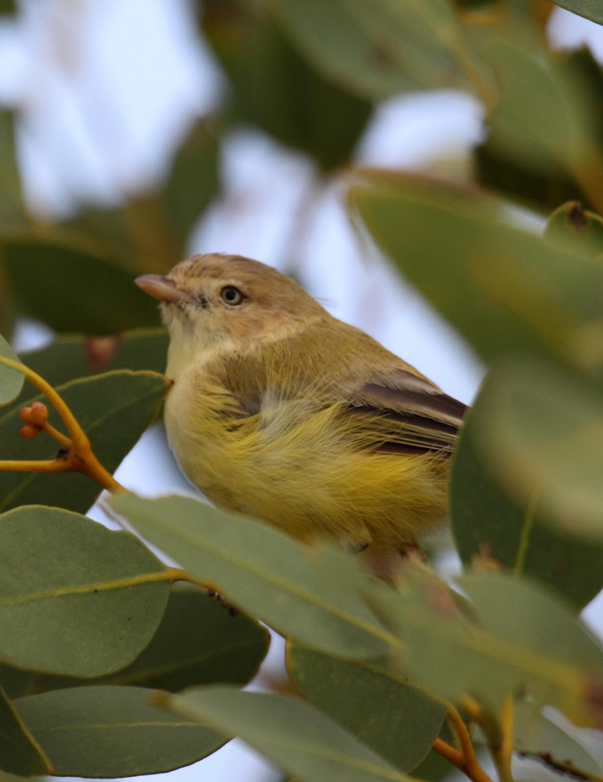 Weebill (Smicrornis brevirostris), Northern Territory, Australia